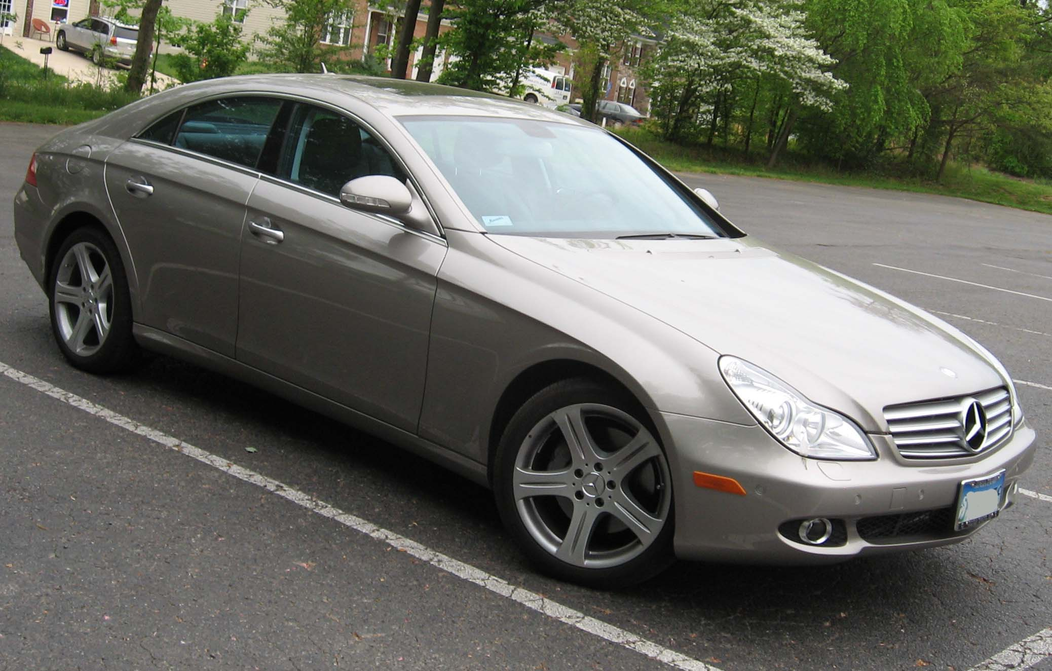 2007 Mercedes-Benz CLS550 photographed in USA.